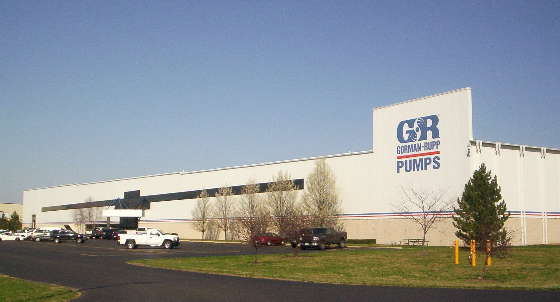 The Gorman-Rupp Pumps which is part of the Gorman-Rupp Company in Mansfield, Ohio, United States.